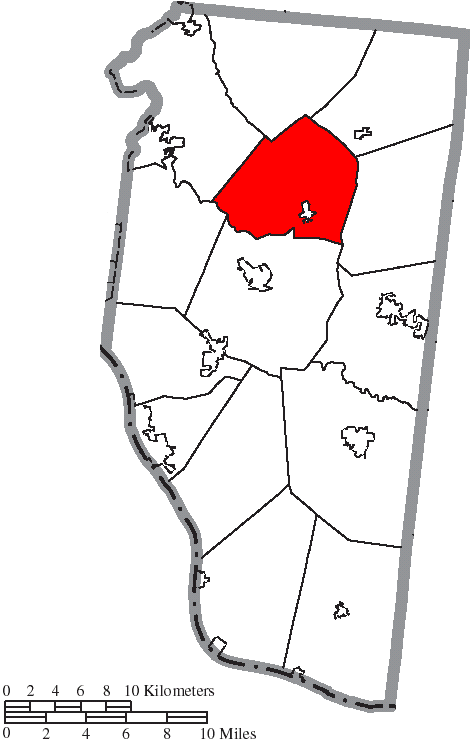 Map of the municipal and township boundaries of Clermont County, Ohio, United States, as of the 2000 census, with the location of Stonelick Township highlighted. Township borders are shown only in unincorporated areas in order to differentiate incorporated and unincorporated areas more clearly.